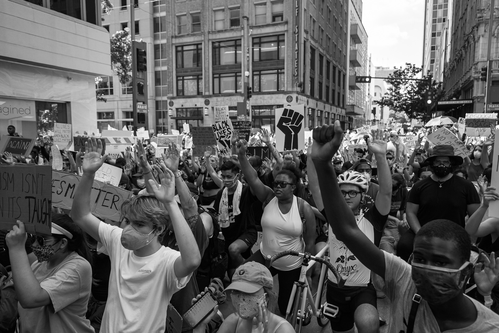 George Floyd Protest Against Police Brutality in Dallas